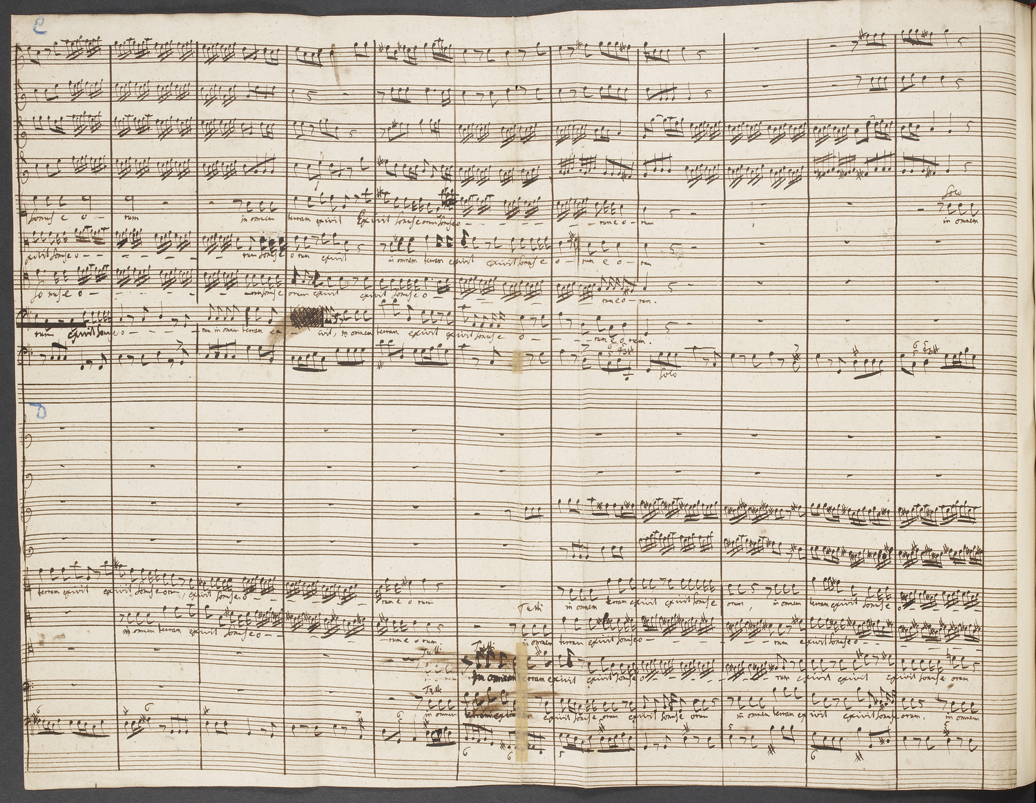 In omnem terram. Possibly in the composer's hand.